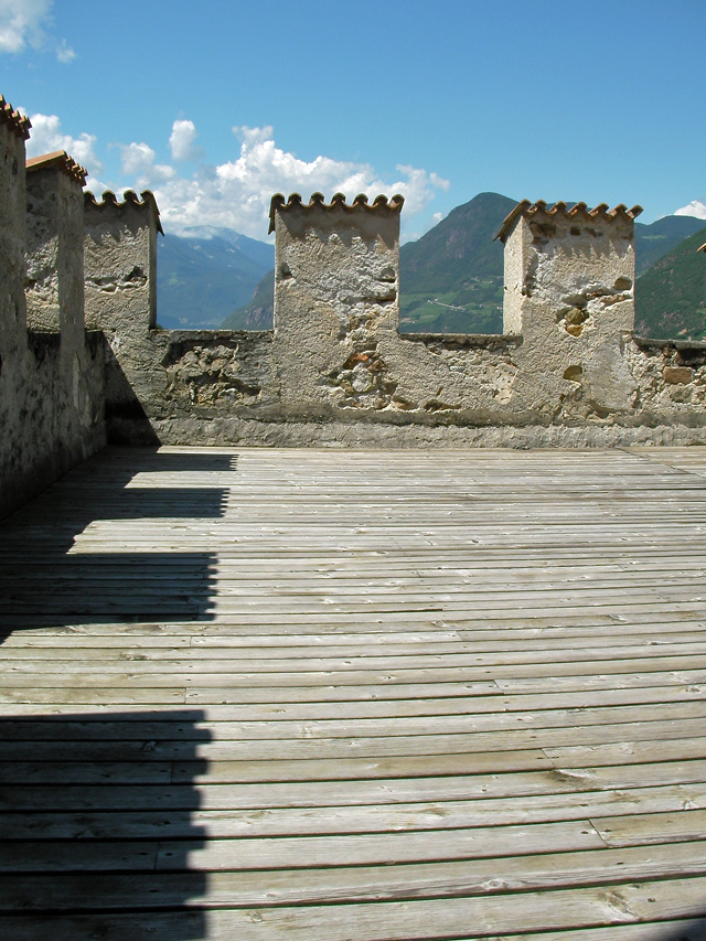 View of 19th century terrace, Karneid castle